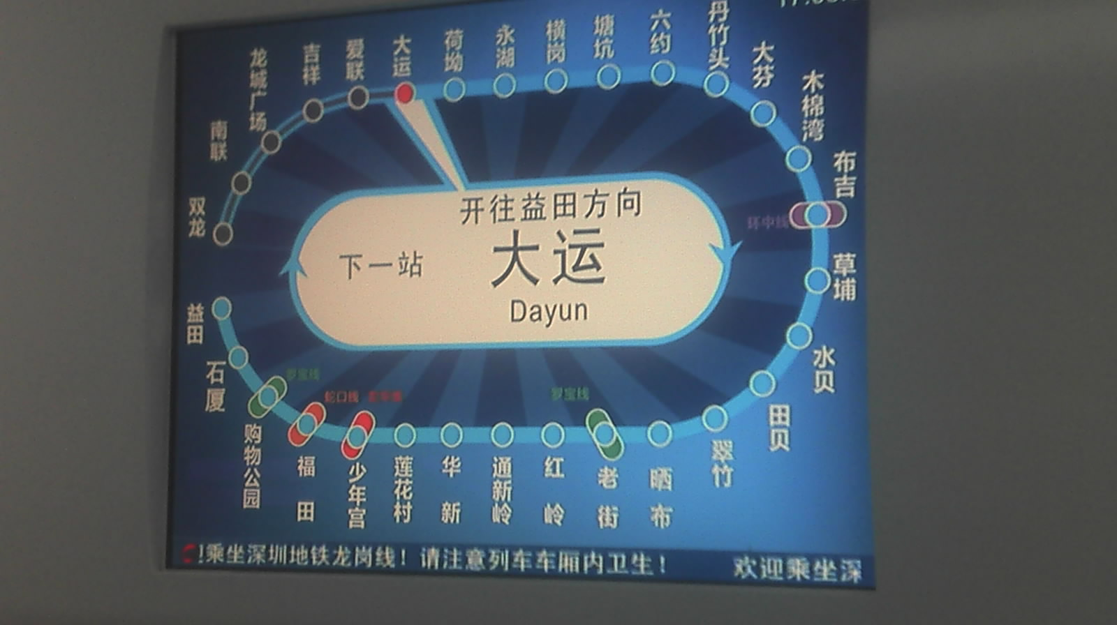 This photo was taken as September 25, 2011.